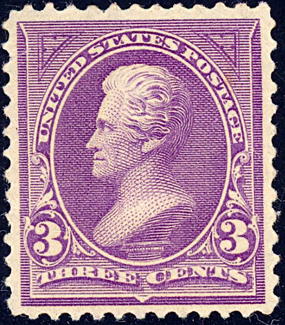 US Postage stamp: Andrew Jackson, Issue of 1894, 3c